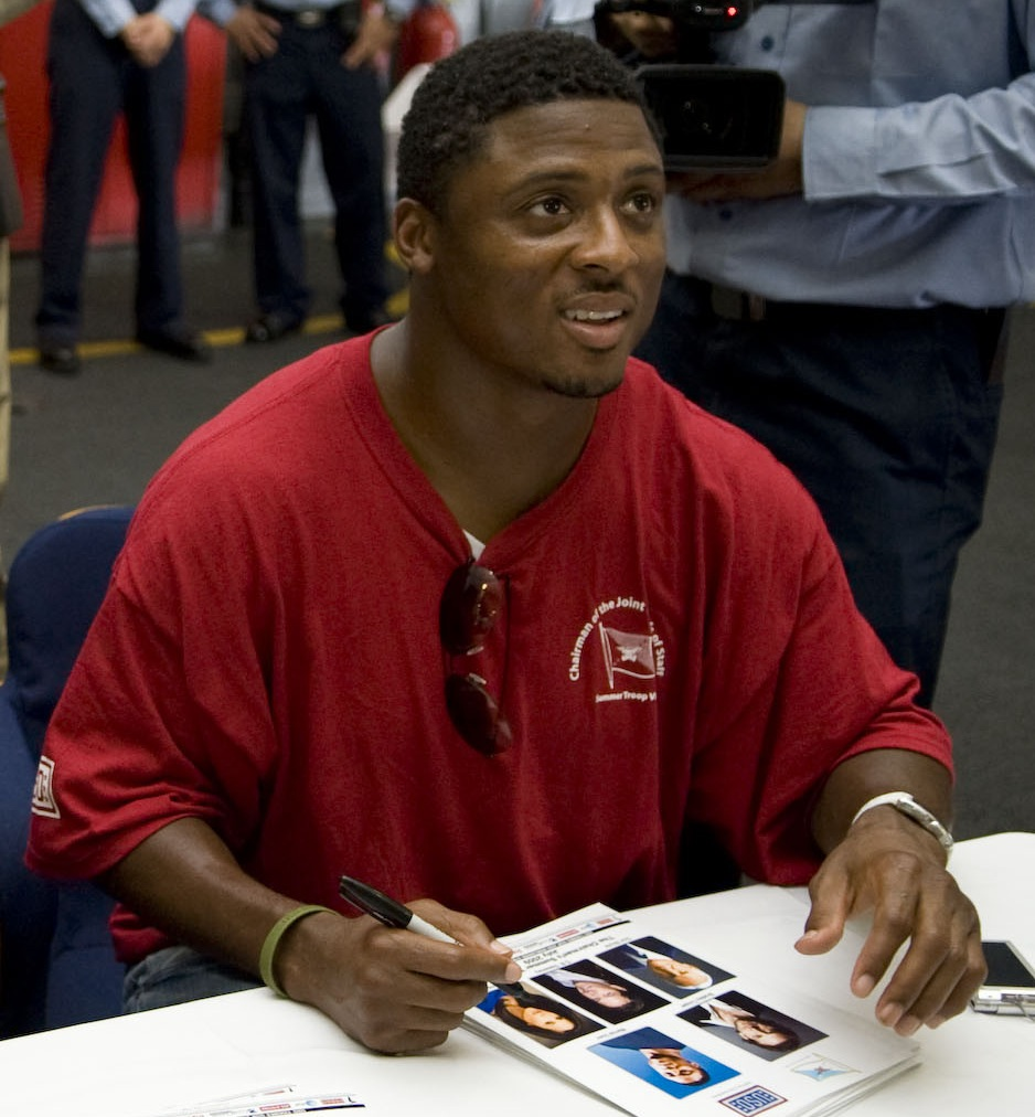 GULF OF OMAN (July 13, 2009) D.B. Sweeney and All-Pro NFL running back Warrick Dunn sign autographs aboard the aircraft carrier USS Ronald Reagan (CVN 76) aboard the carrier underway in the Gulf of Oman. Adm. Mike Mullen, chairman of the Joint Chiefs of Staff, is accompanying a USO tour featuring Hall of Fame NFL coach Don Shula, All-Pro NFL running back Warrick Dunn, and actors Bradley Cooper and D.B. Sweeney on a visit to the Central Command area of responsibility. (U.S. Navy photo by Mass Communication Specialist 1st Class Chad J. McNeeley/Released) This file has been extracted from another file: US Navy 090713-N-0696M-133 D.B. Cooper and All-Pro NFL running back Warrick Dunn sign autographs aboard the aircraft carrier USS Ronald Reagan (CVN 76) aboard the carrier underway in the Gulf of Oman.jpg